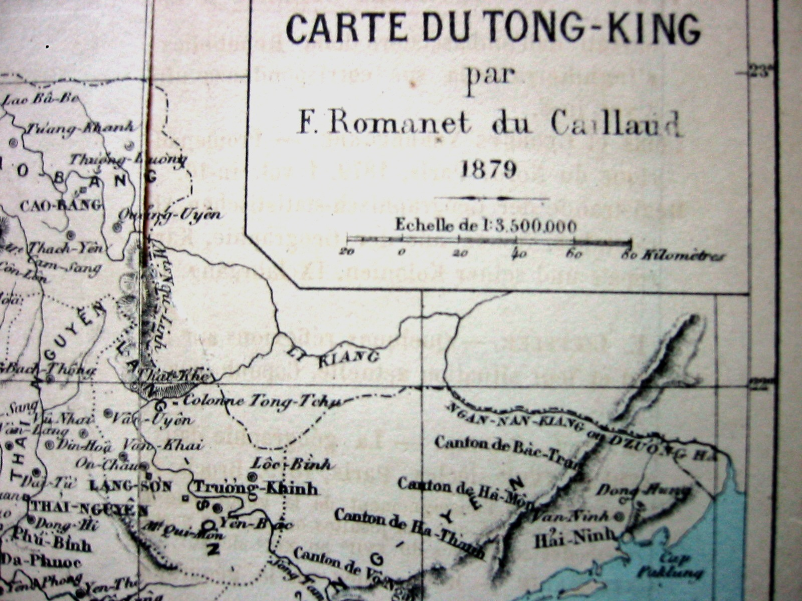 Map of Tong-king